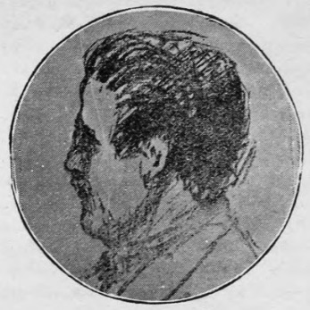 Armen Dorian (Template:Lang-hy; 28 January 1892 - 1915) was a renowned Armenian poet who lived in the Ottoman Empire. Dorian studied in the Sorbonne University in Paris, France. Much of his poetry was written in French and Armenian. In 1915, Dorian was arrested and killed during the Armenian Genocide.